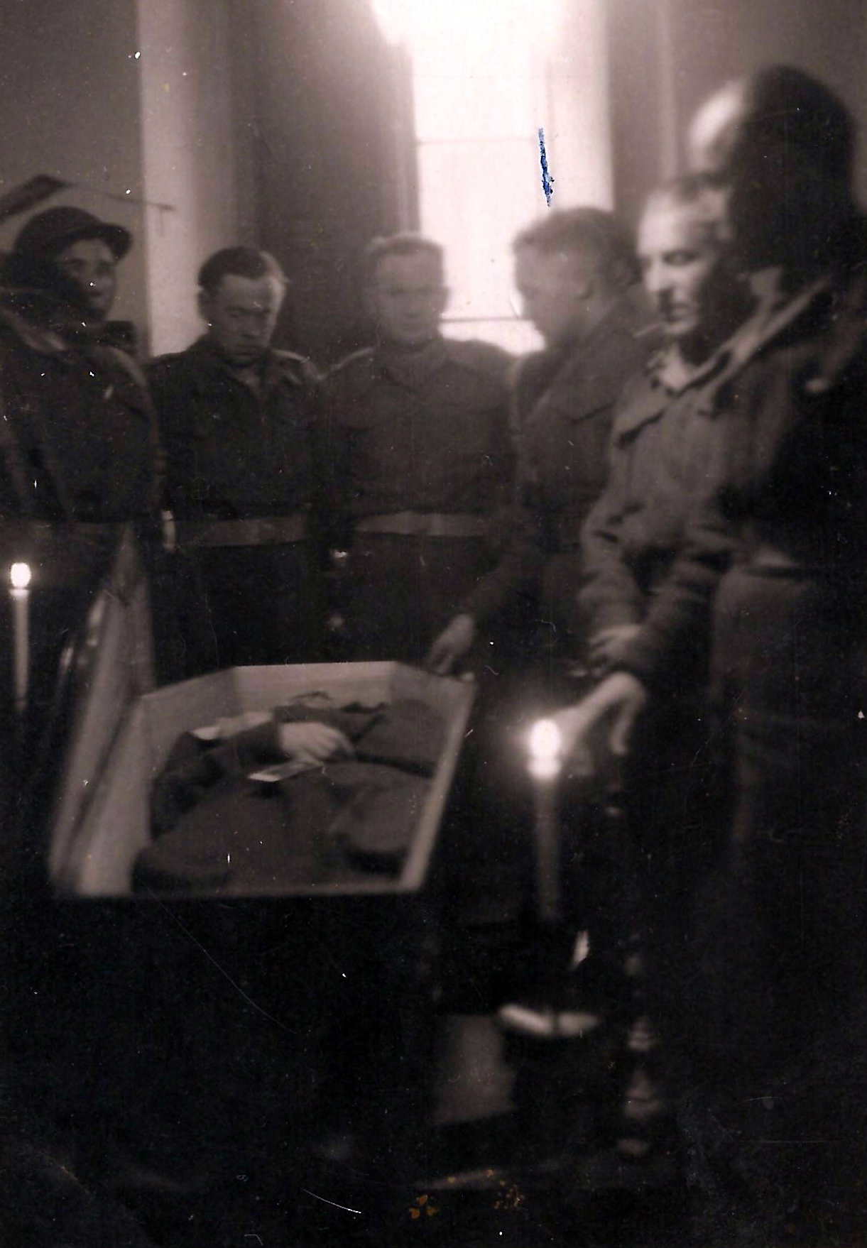 Funeral, source: Patrick Grydziuszko